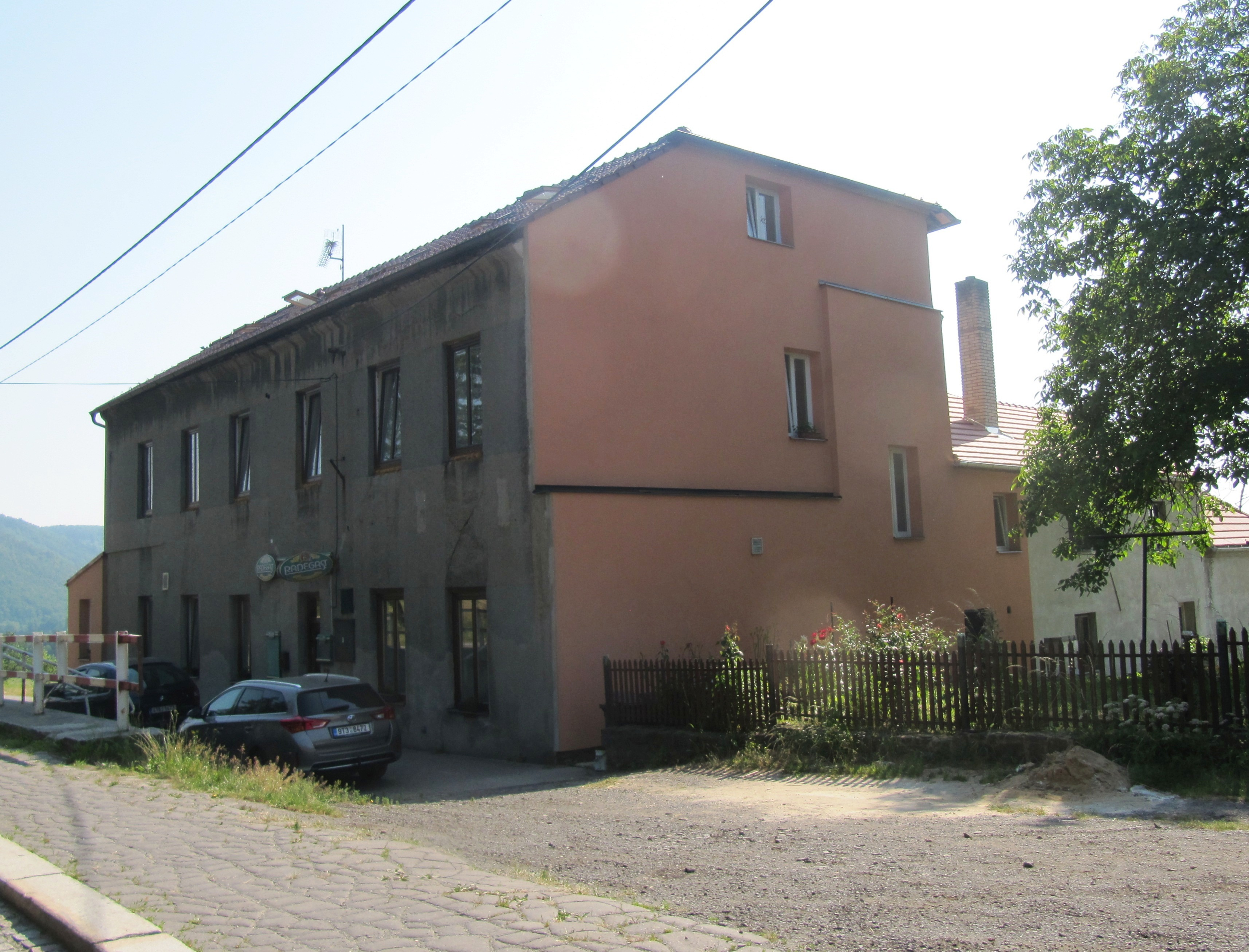 Vražné, Nový Jičín District, Czech Republic, part Emauzy.